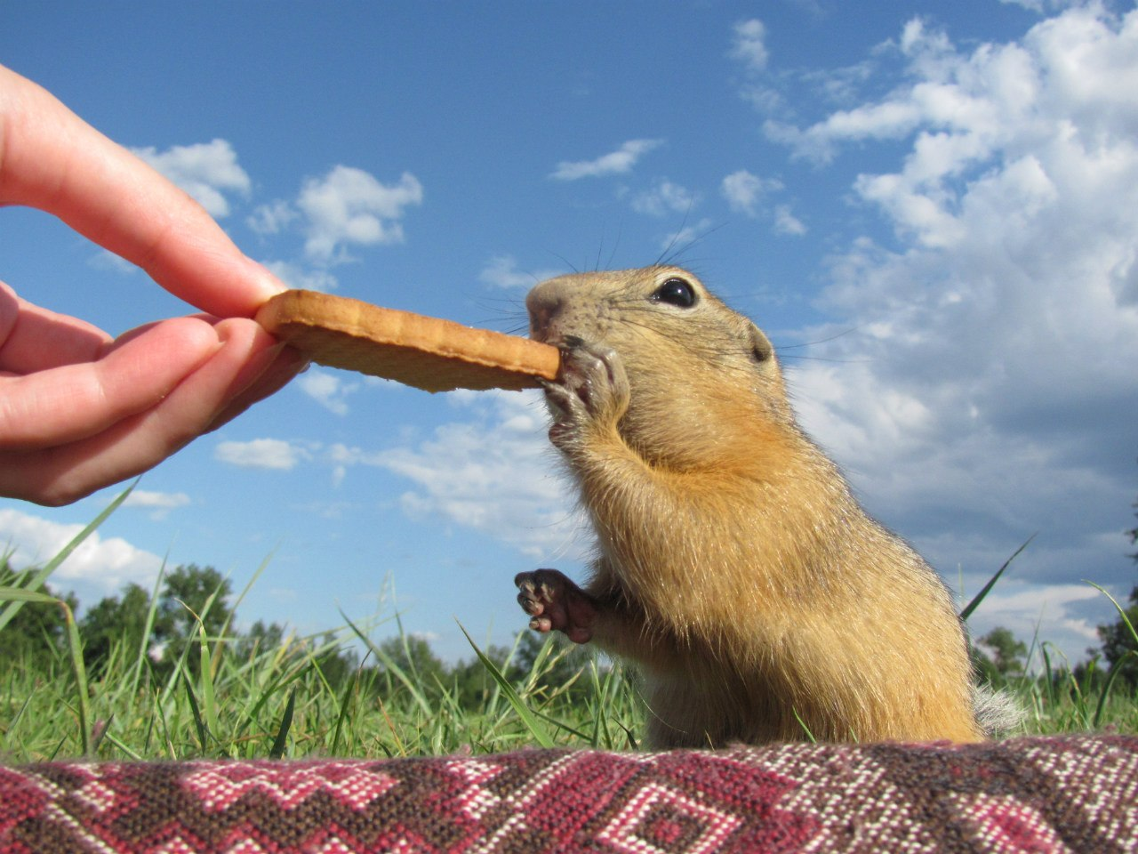 Gopher on the island Tatyshev